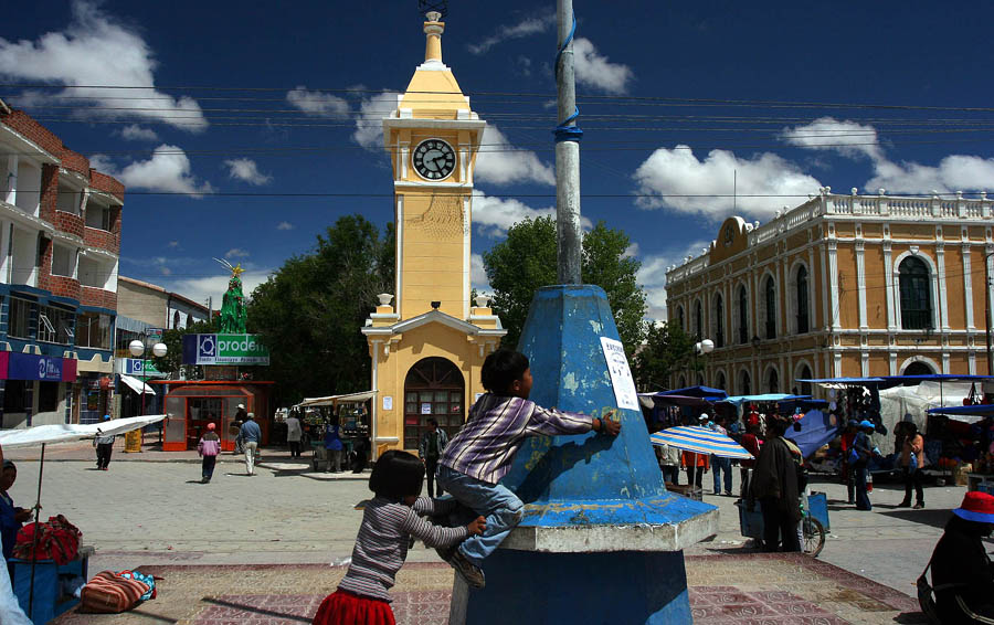 The town centre of Uyuni, Bolivia